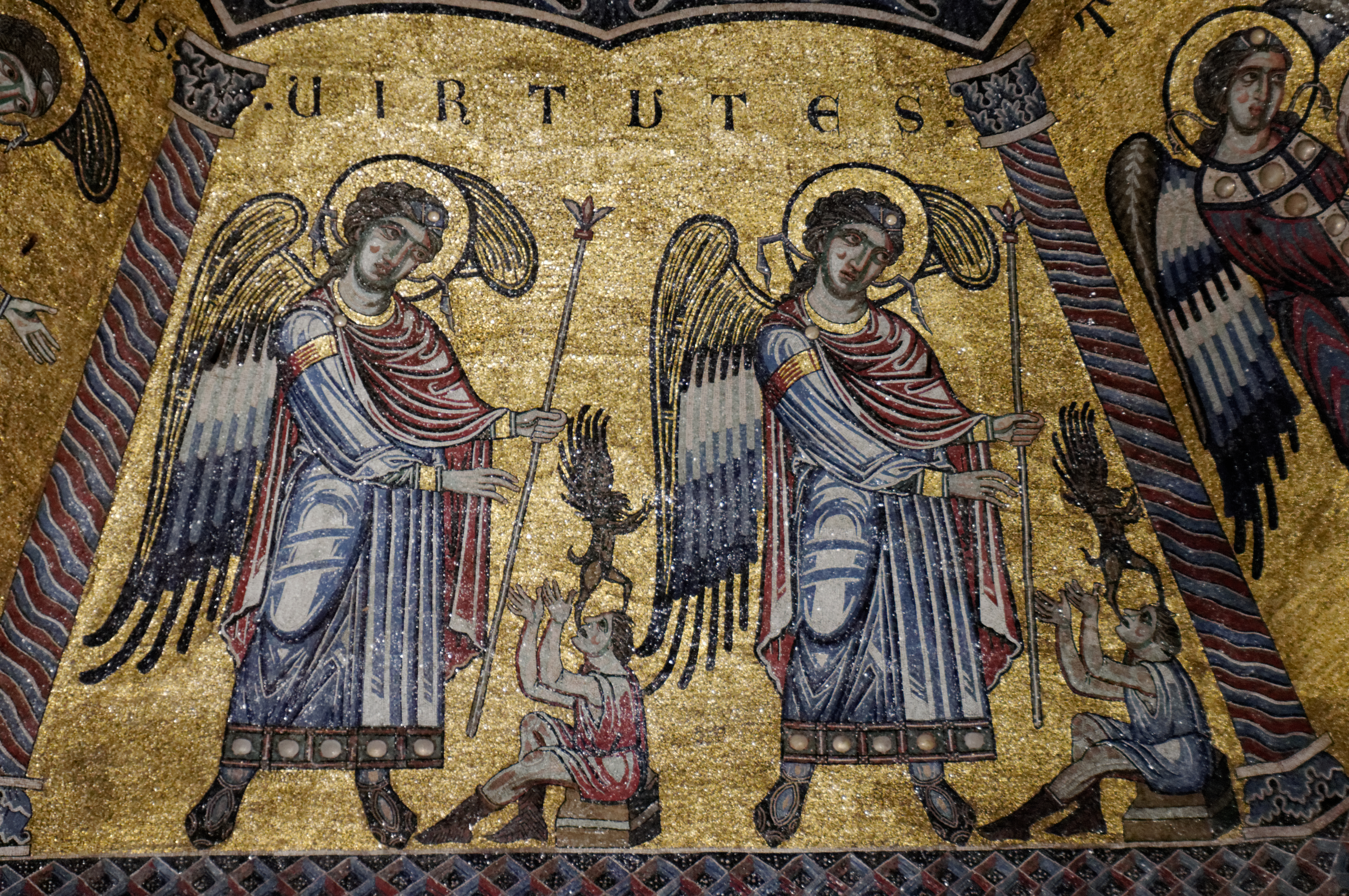 Mosaic ceiling: angelic hierarchy: the virtues.